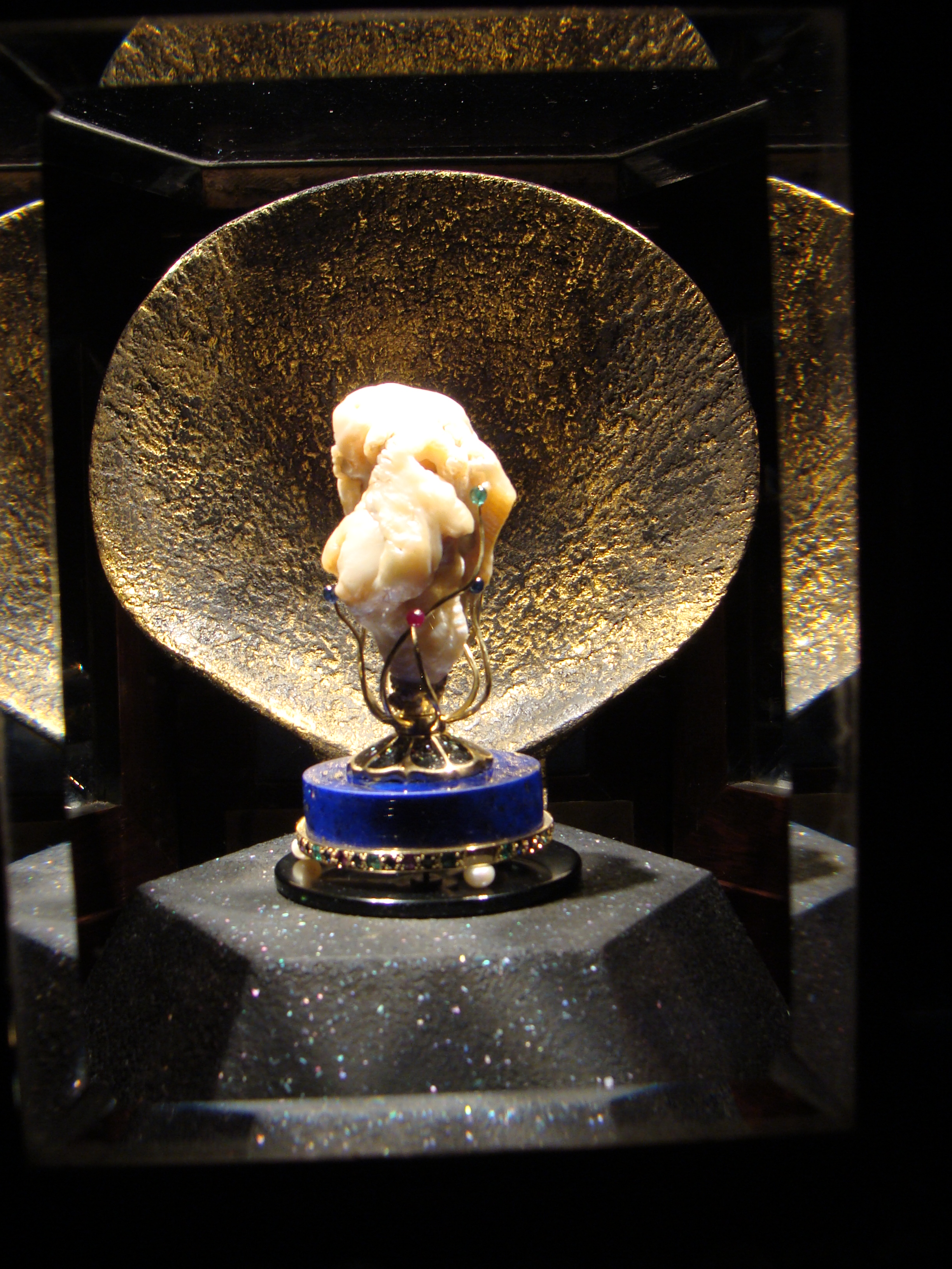 Pearl Maxima is one of the largest pearls in the world. It is currently kept in the collection of the National Museum of Natural History "Naturalis" in Leiden, the Netherlands.